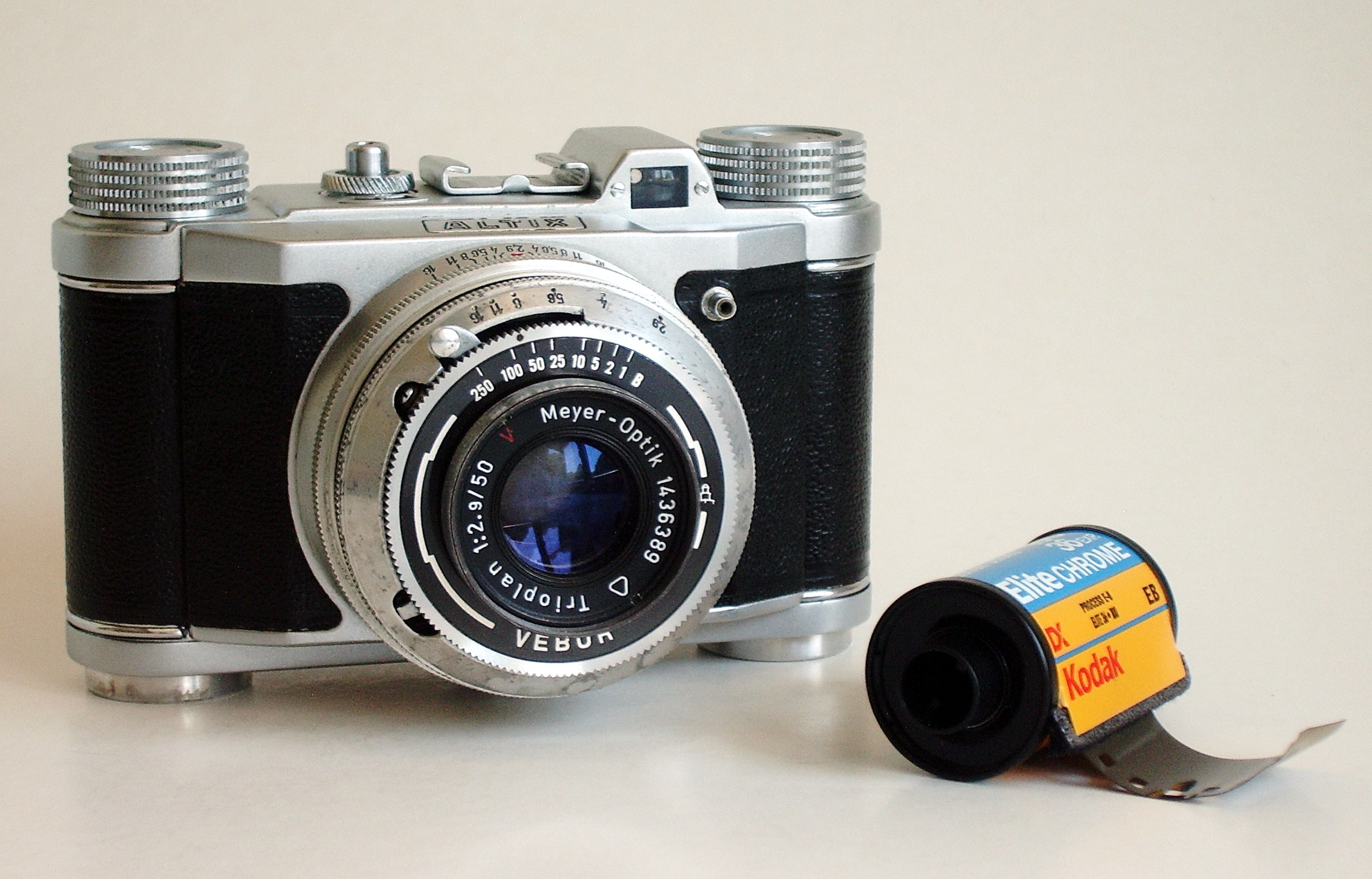 Altix III camera, made around 1949 by Altissa in Dresden, Germany. 135 film format. Manual focus. Lens Trioplan f=1:2.9/50mm by Meyer-Optik (YES! - you see, WHY I had to buy it!). Vebur shutter 1 sec - 1/250 sec. and "B".